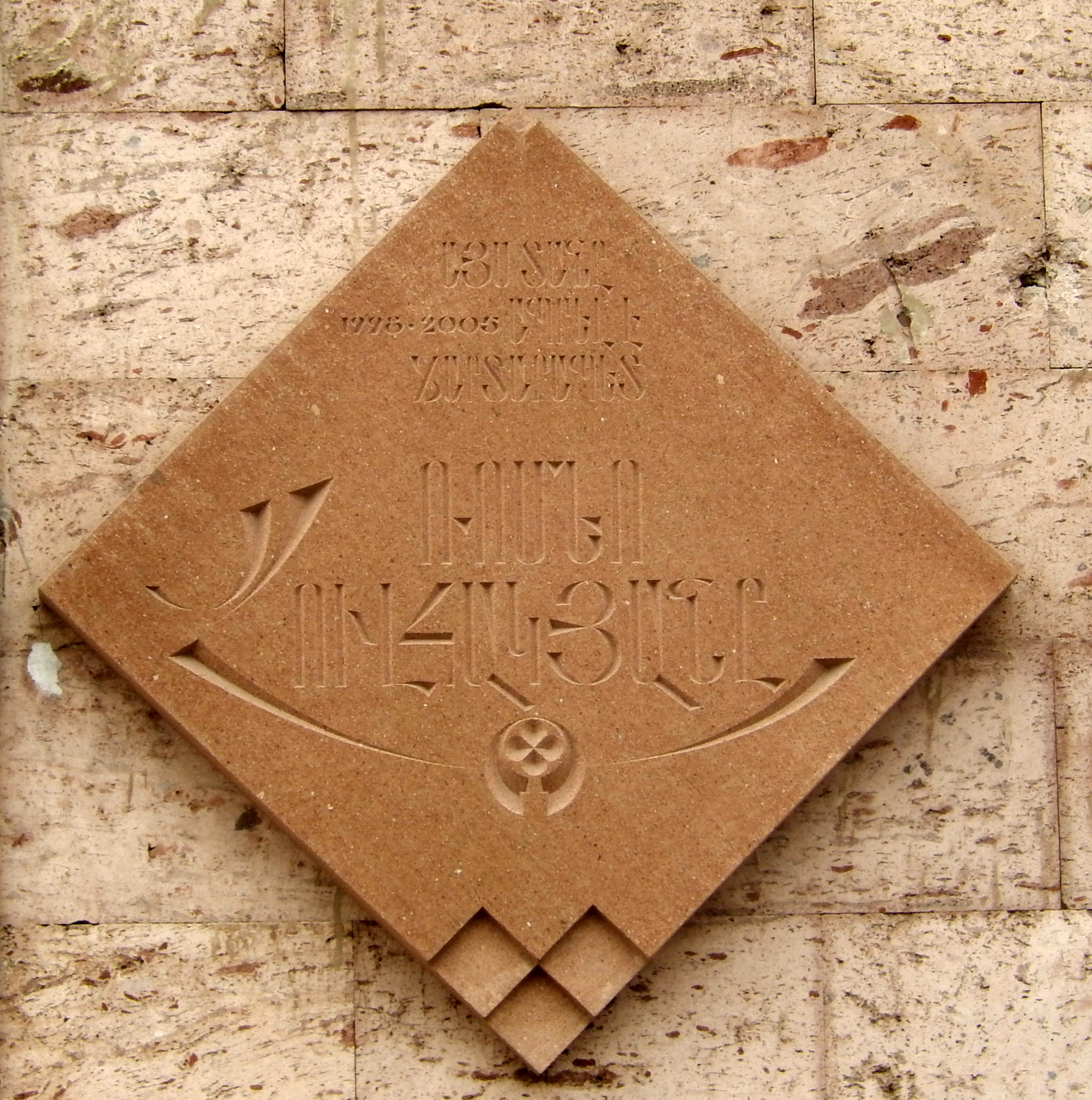 Romeo Julhakian Plaque in Koryun Street